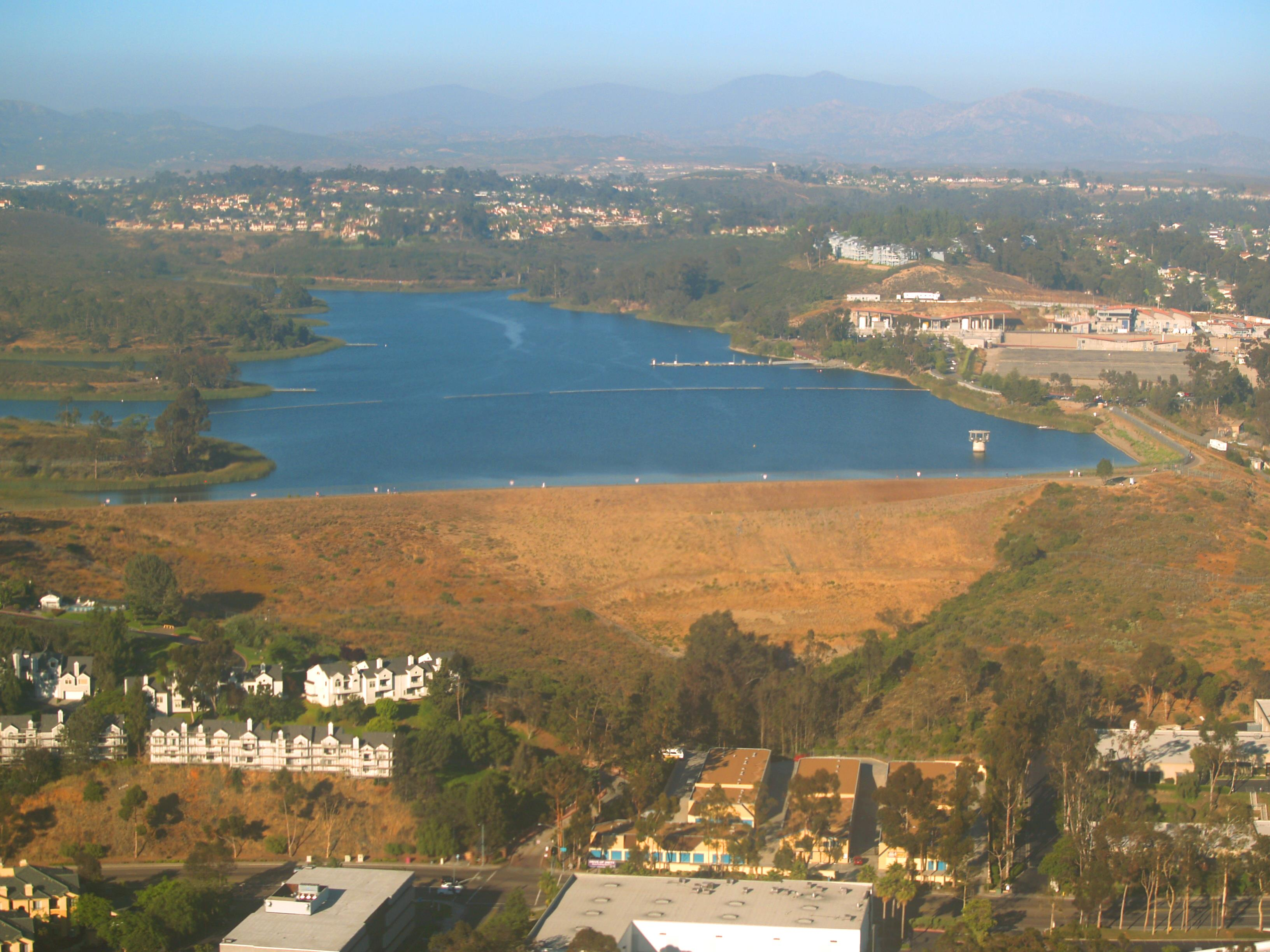 Photo of Miramar Reservoir and dam, taken from a helicopter. Looking toward to east.